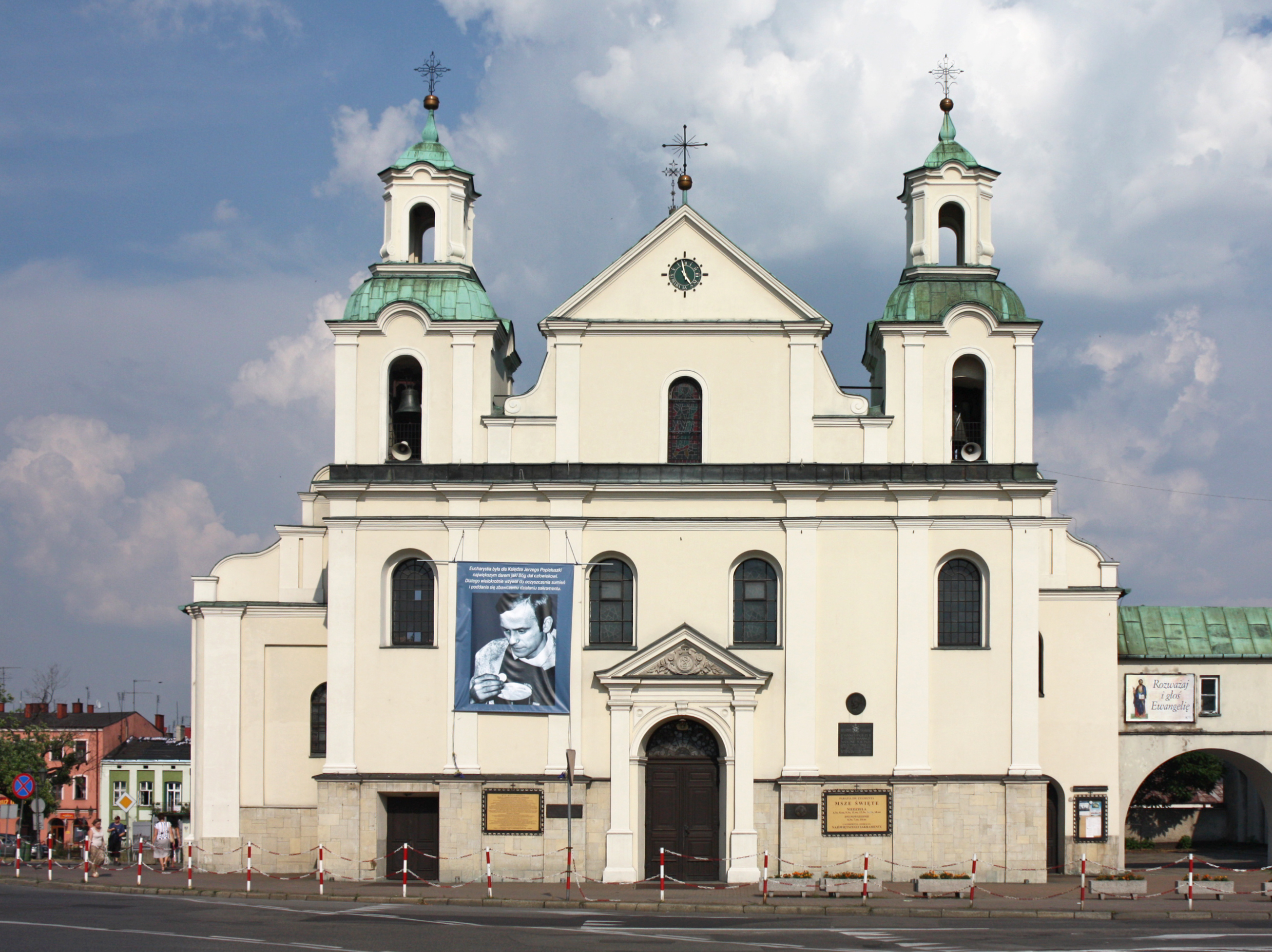 Częstochowa, St Sigismund Church